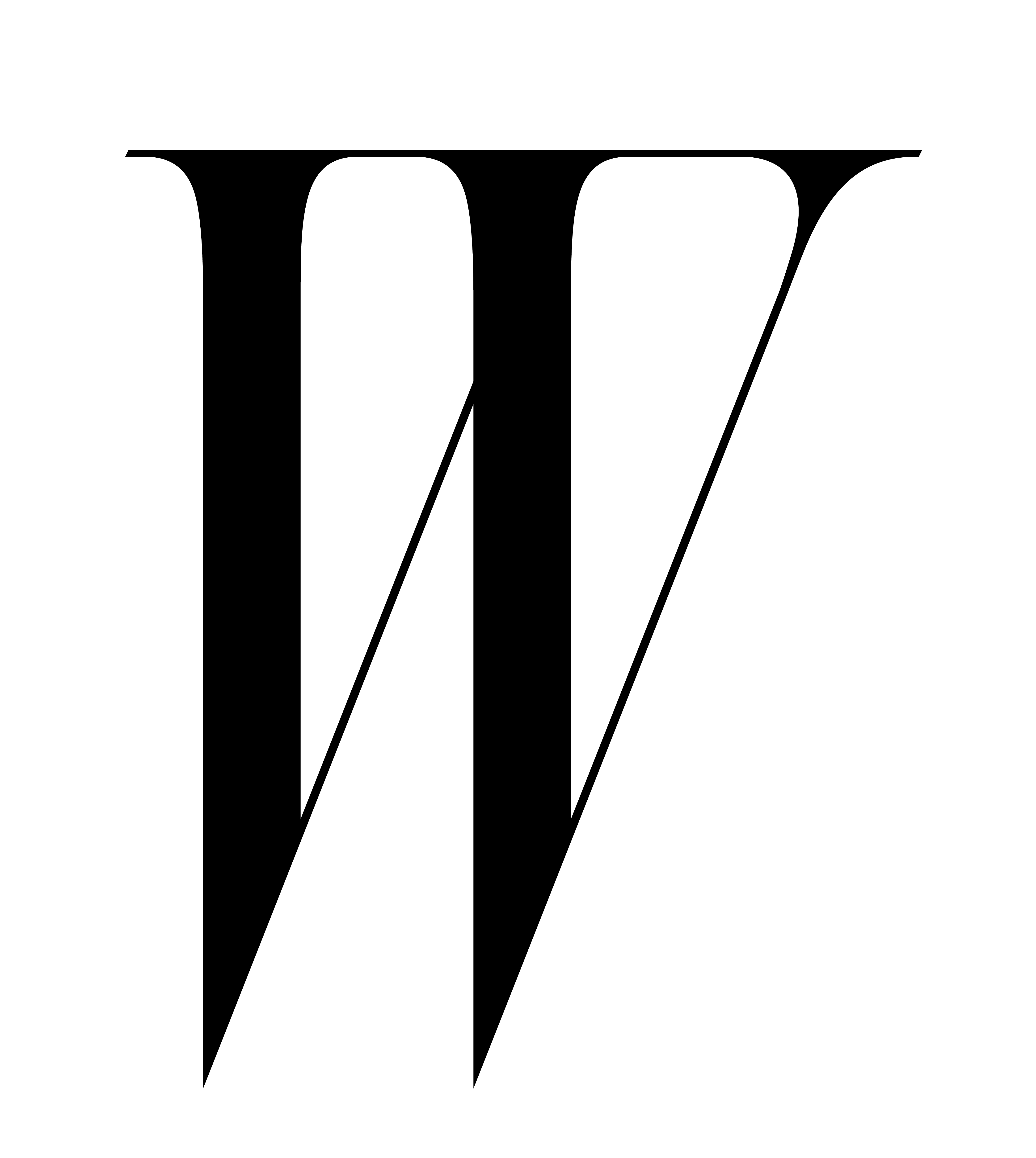 Logo from the magazine W.